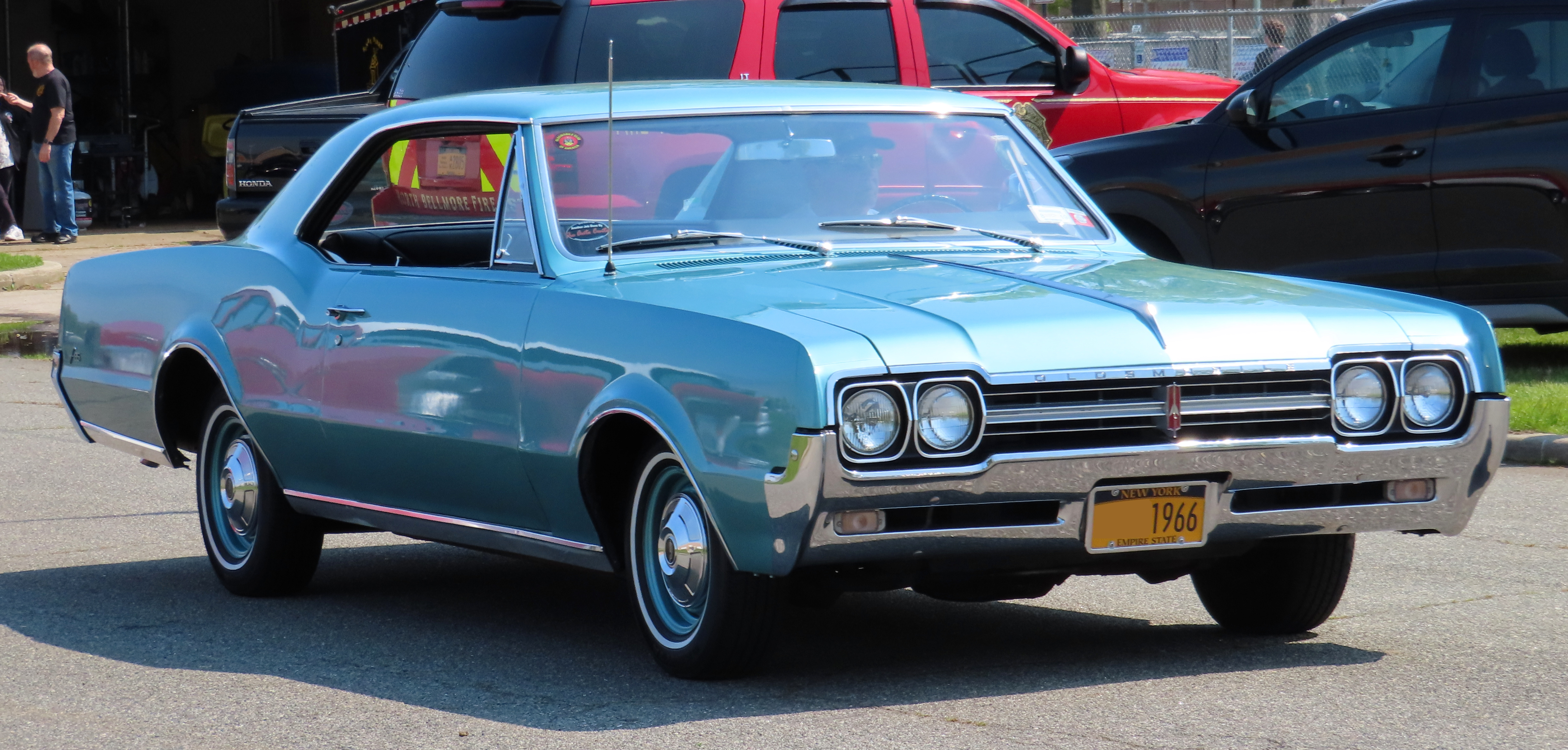 A 1966 Oldsmobile Cutlass F-85 coupe photographed during at a classic car show, in Merrick, New York, USA